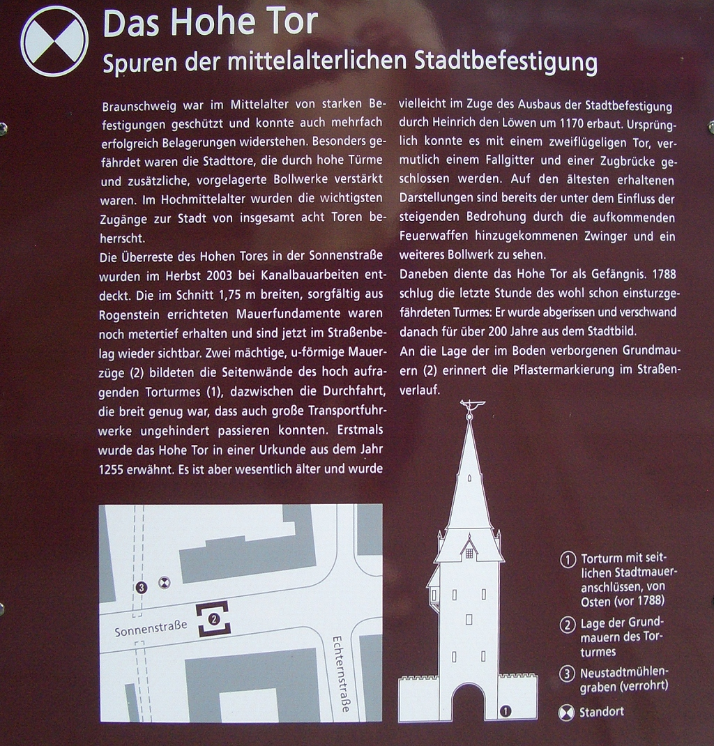 Information board "Hohes Tor" in Braunschweig.